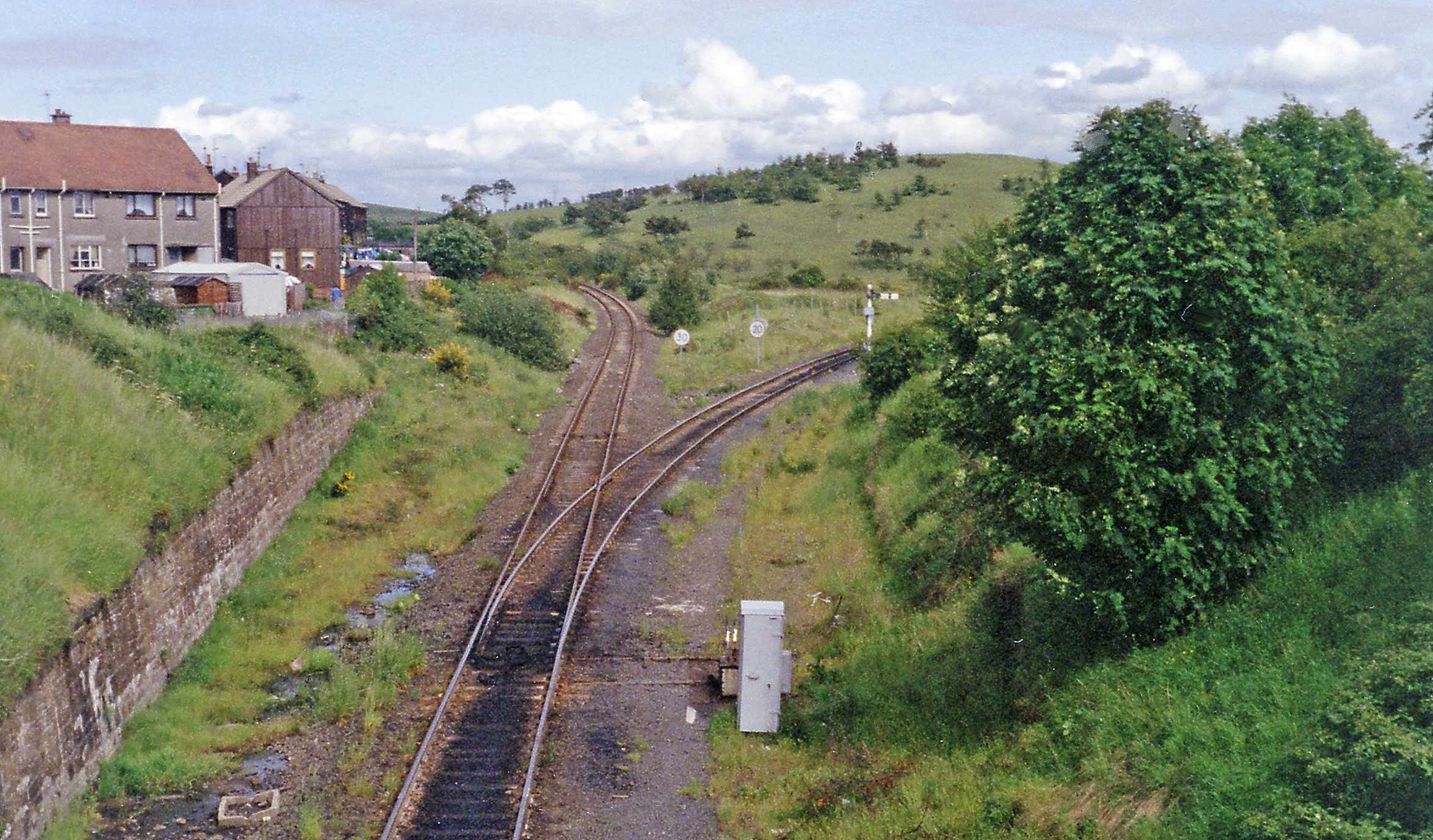 Junction at site of Annbank station, 1994. View eastward, on the ex-GSWR lines from Ayr (also Troon, ?goods only) towards Mauchline to the left and to the right via Drongan and Cumnock to Cronberry and Muirkirk. Passenger services on the Mauchline line ceased from 4/1/43, on the Drongan line from 10/9/51 and the station closed that day, but in 1994 both routes were still open for goods traffic - after interruption in the 1980s, mainly conveying open-cast coal.